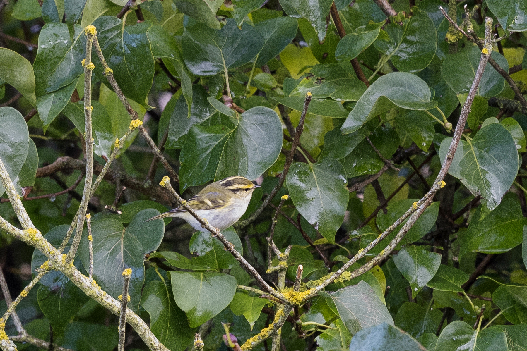 Pallas's Leaf Warbler, Phylloscopus proregulus